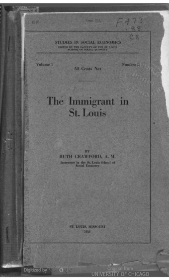 The Cover Page of Ruth Crawford's The Immigrant in St. Louis: A Survey